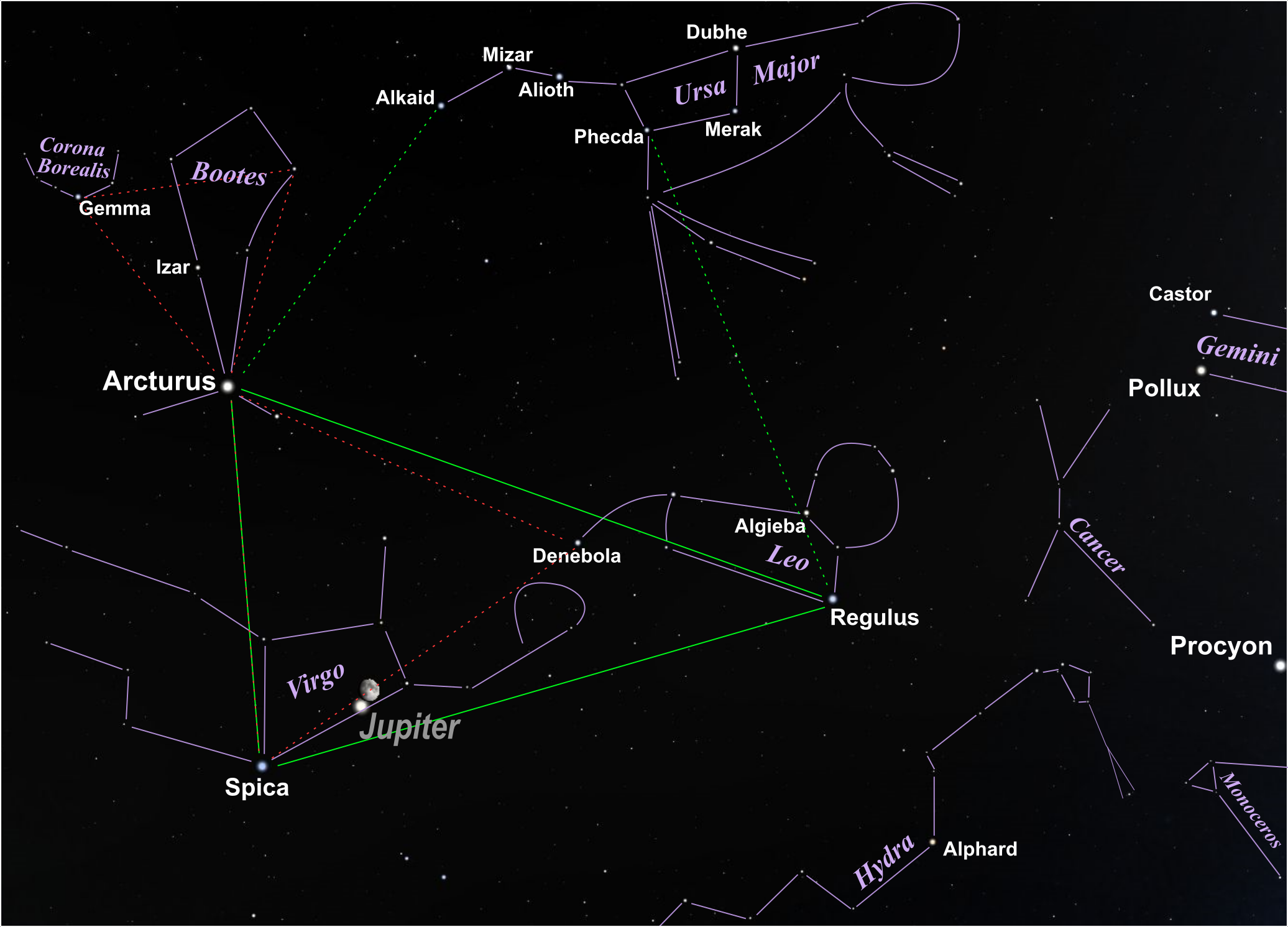 The Spring Triangle between Arcturus (Bootes), Spica (Virgo, in May 2017 with Jupiter and, "incidentallly", the Moon) and Regulus (Leo); the dashed lines show how to find Arcturus and Spica from the handle of the Big Dipper (Part of Ursa Major, above) and how to find Regulus from the dipper. On top of the left side Corona Borealis, at the right the unimpressive Cancer and, for a better orientation, the stars Procyon, Pollux and Castor from the Winter Hexagon. All stars of an apparent magnitude of at least 2 mag are labelled. The dahed red lines show the equilateral spring triangle with Denebola instead of Regulus and a second equilateral triangle with Arcturus, Gemma and Seginus.